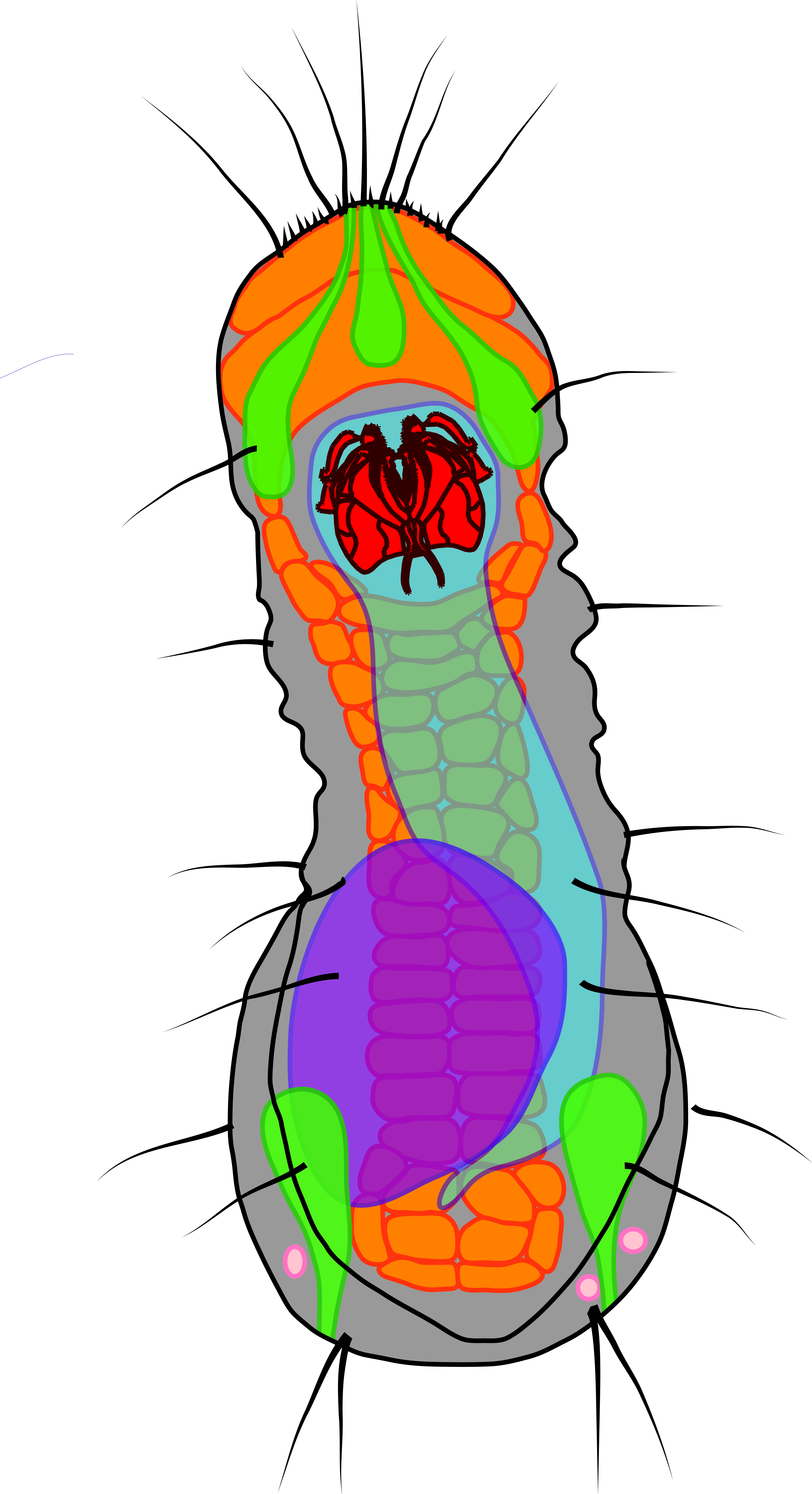 Schematic drawing of Limnognathia maerski in dorsal view, the anterior is on top and the posterior on the bottom. The different glands are in green, the jaws in red, the gut in blue, the egg in purple, the locomotory ciliation in orange, and the refringent bodies in pink. Sensorias are scattered around the body.